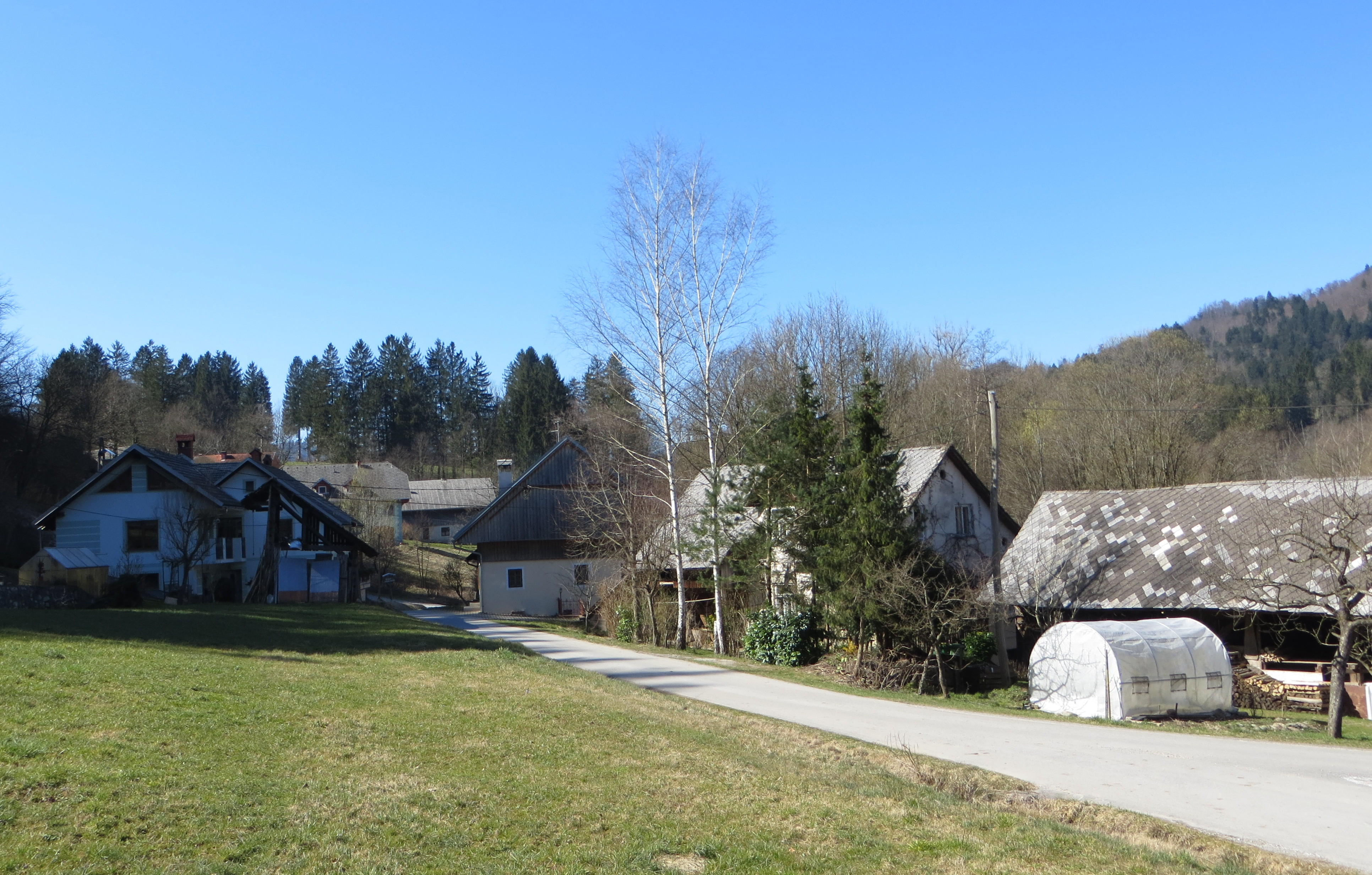 Žabja Vas, Municipality of Gorenja Vas–Poljane, Slovenia